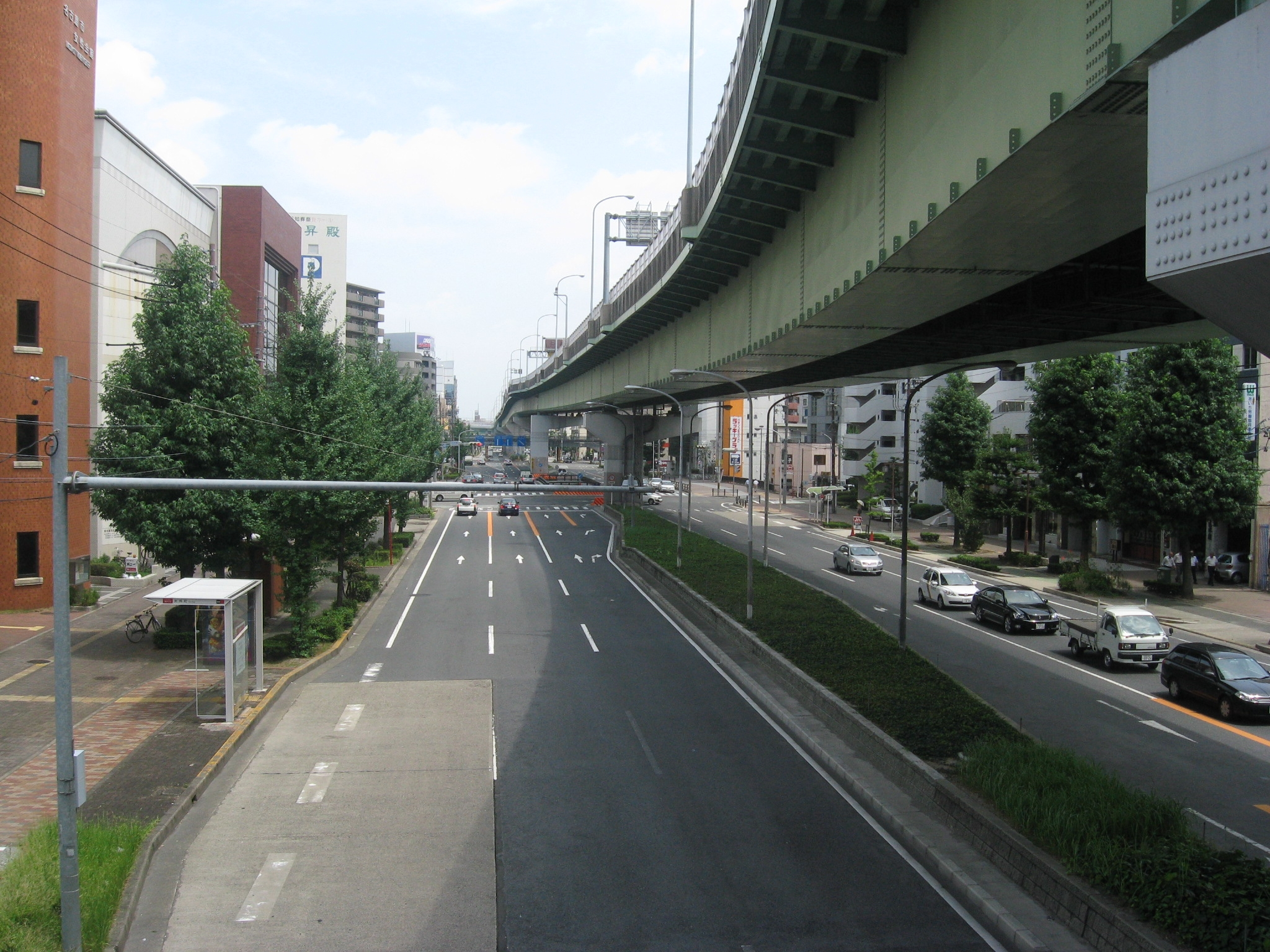 Sanno-dori (Sanno Street) in Naka-ku, Nagoya, Japan (Near Higashi Betsuin Station)